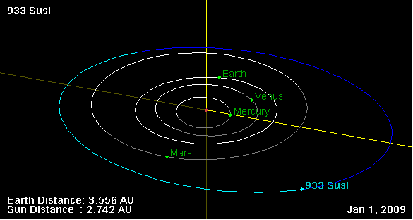 933 Susi orbit, and his position on 01 Jan 2009 (NASA Orbit Viewer applet)